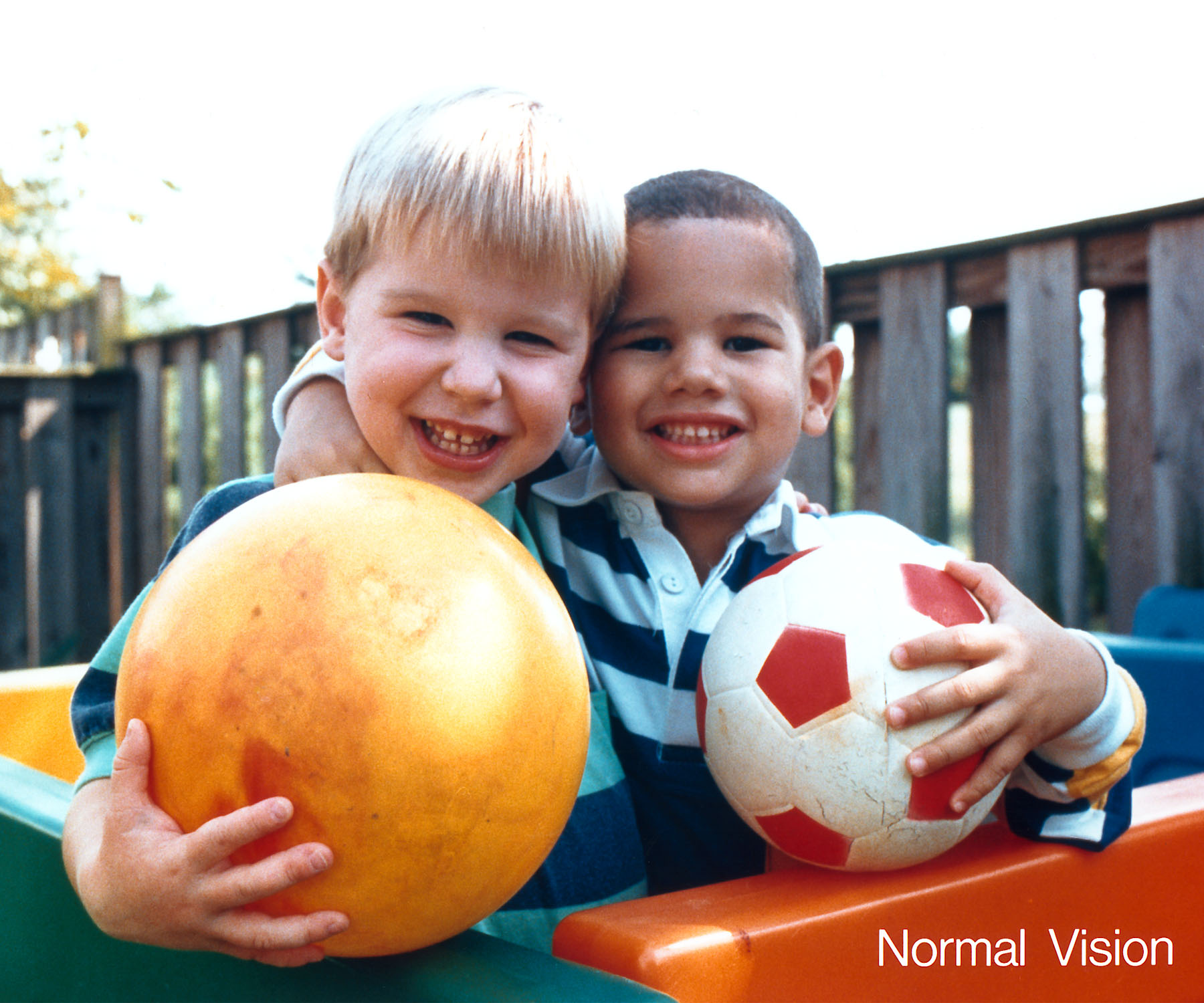 human eyesight two children and ball normal vision Copyright: public domain, US gov.[1] Credit of NIH National Eye Institute requested. Part of a set of eye pictures: Image:Human eyesight two children and ball normal vision.jpg Image:Human eyesight two children and ball with age-related macular degeneration.jpg Image:Human eyesight two children and ball with cataract.jpg Image:Human eyesight two children and ball with diabetic retinopathy.jpg Image:Human eyesight two children and ball with glaucoma.jpg Other NEI NIH images